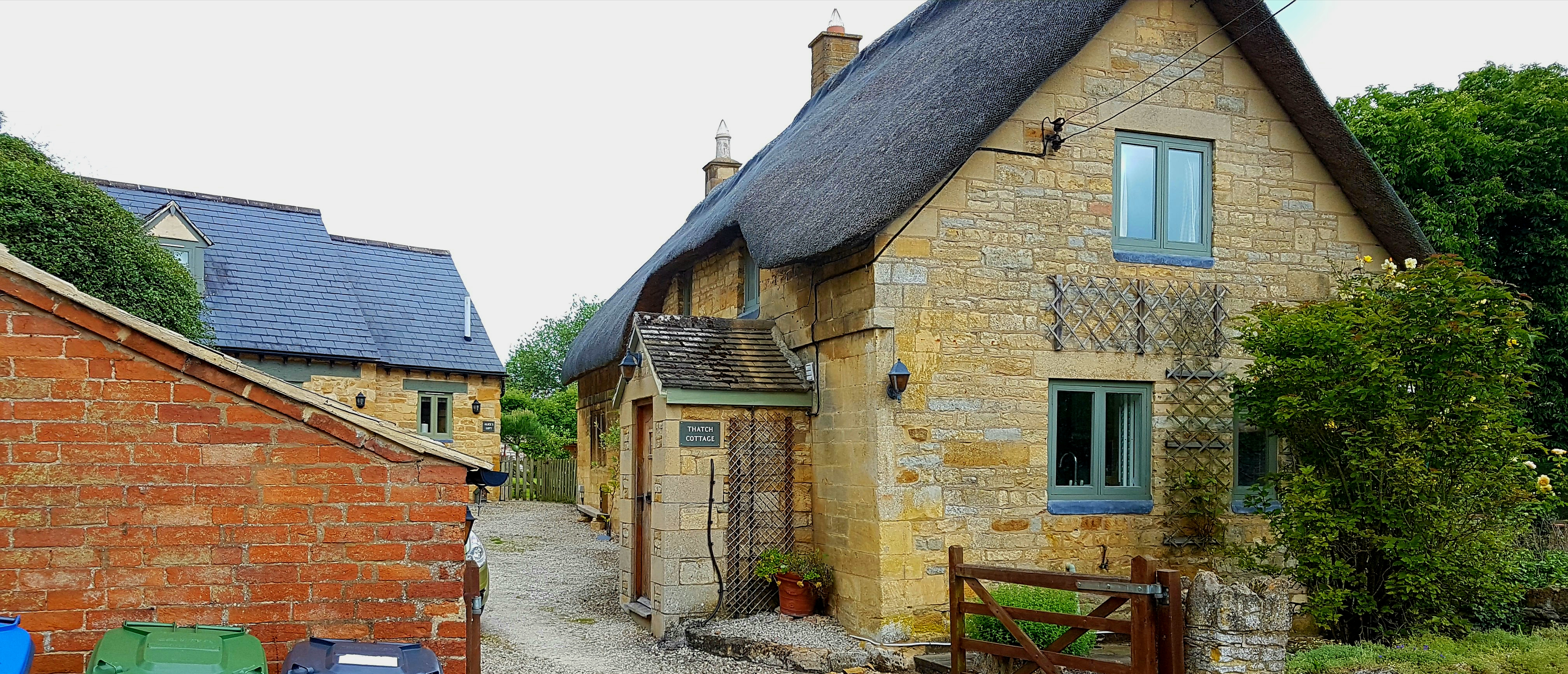 Thatch and slate roof, Stretton-on-Fosse, Cotswolds